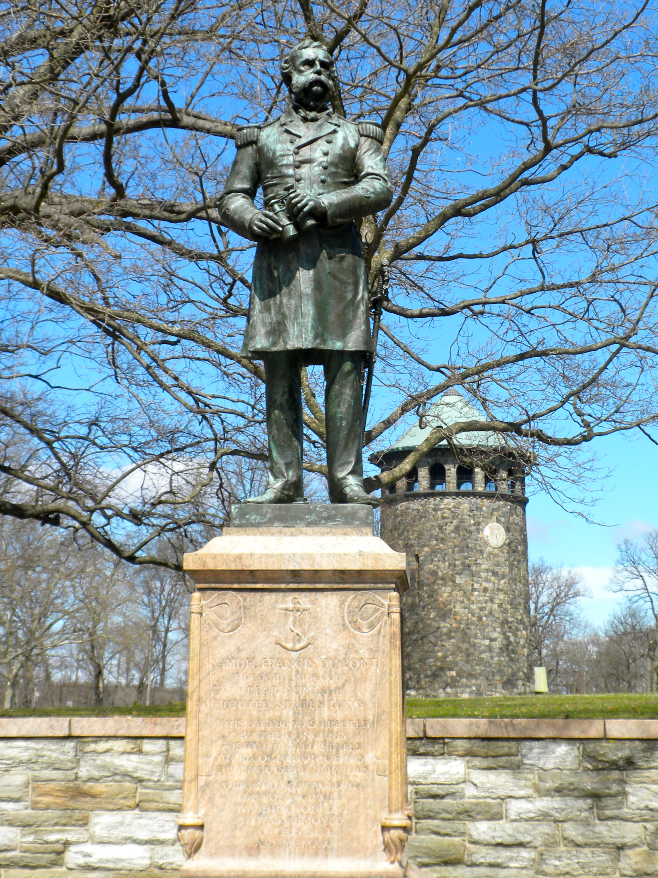 Statue of Admiral Samuel DuPont in Rockford Park, with Rockford Park Water Tower in the background. The Park has been on the NRHP since September 20, 1978. The park (Historic District) is roughly bounded by Red Oak and Rockford Rds., Church and Rising Sun Lanes, and the Brandywine River, Wilmington, Delaware. The Park is now combined with 3 others and known as "Wilmington State Parks" The statue was commissioned by Congress (according to information plaque) and was formerly displayed in DuPont Circle, Washington, DC